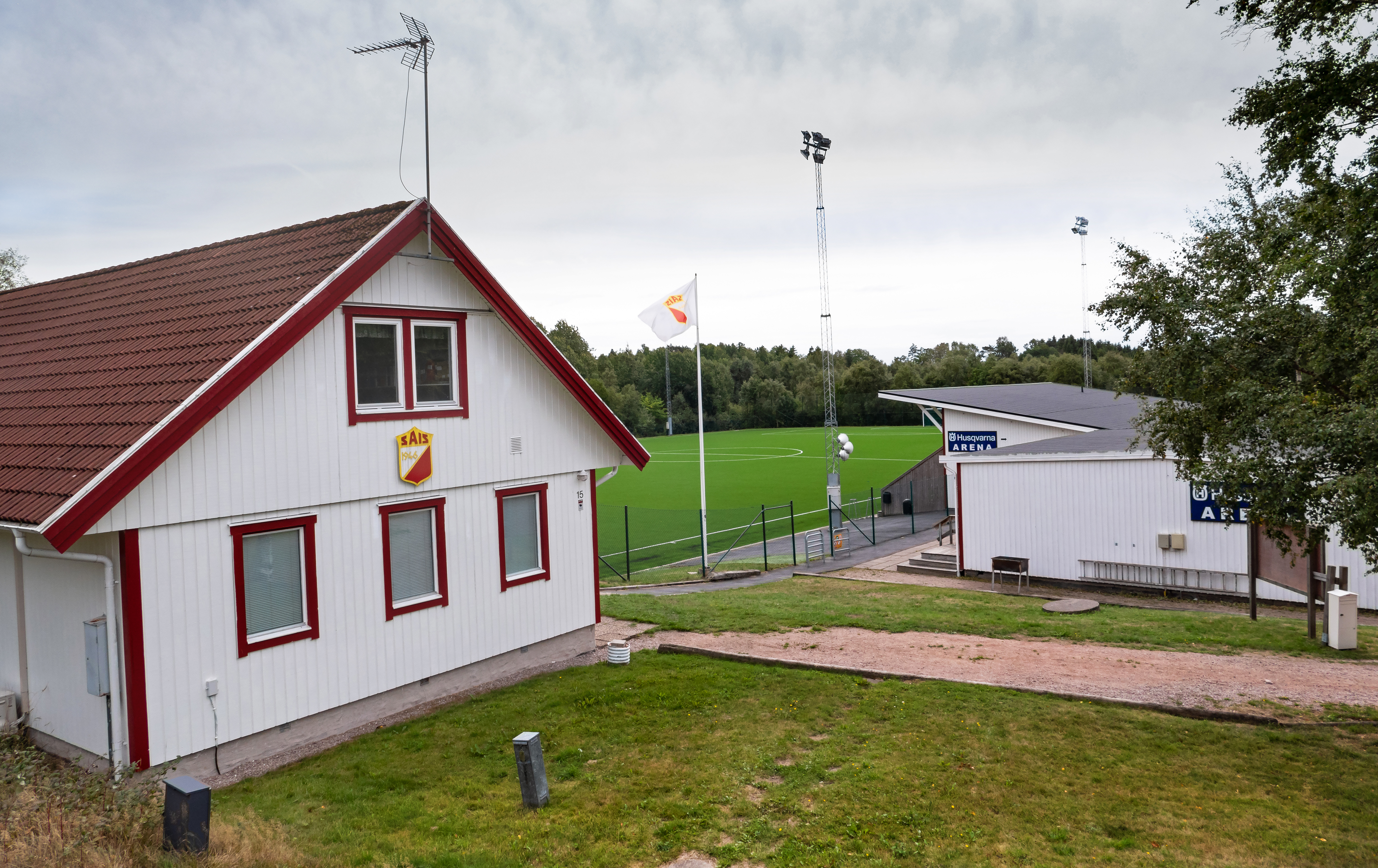 Brastad arena, Brastad, Lysekil Municipality, Sweden.